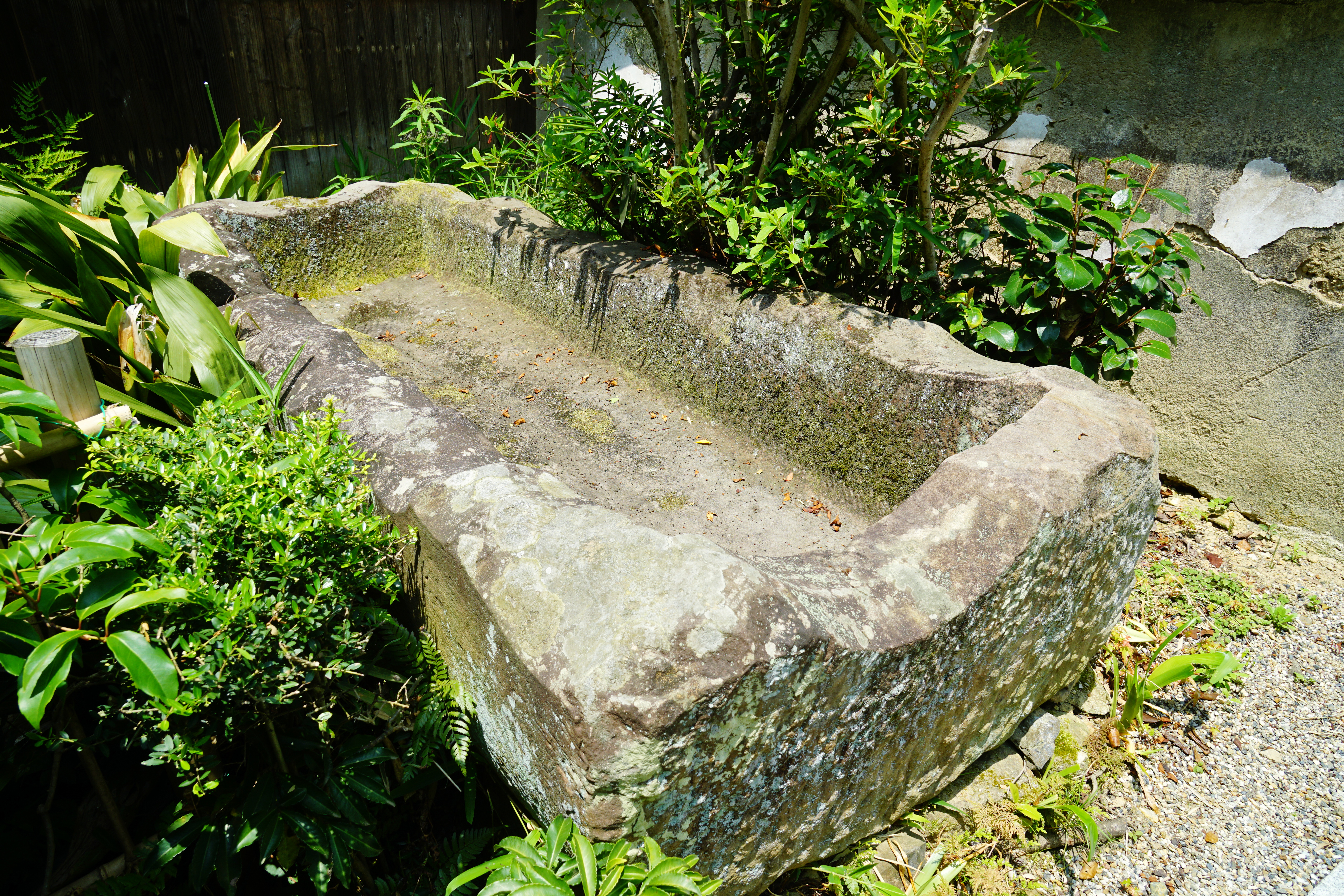 Futai-ji in Nara, Nara prefecture, Japan.